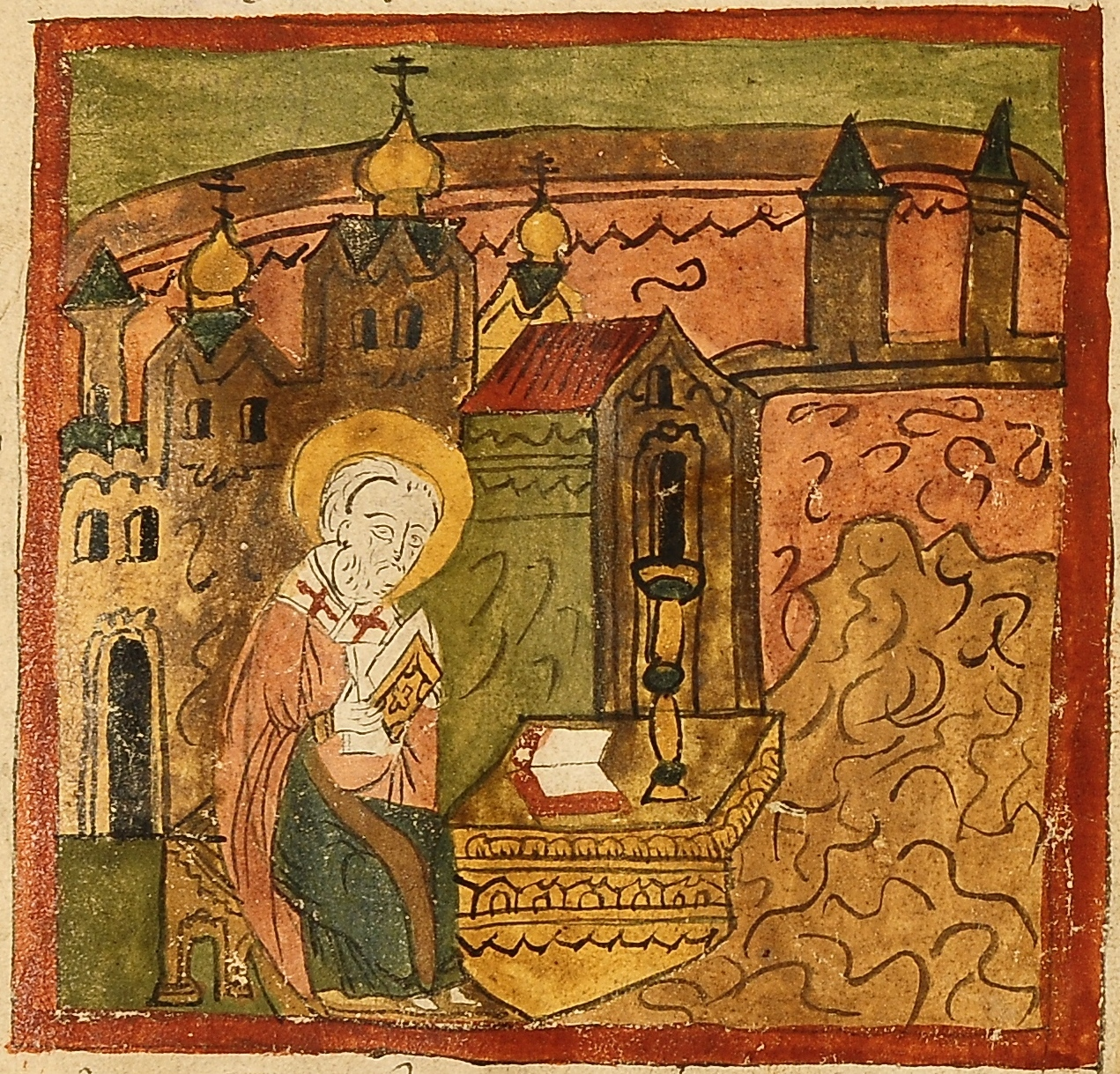 Апокалипсис толковый. XVII в. РГБ ф. 37, № 005.